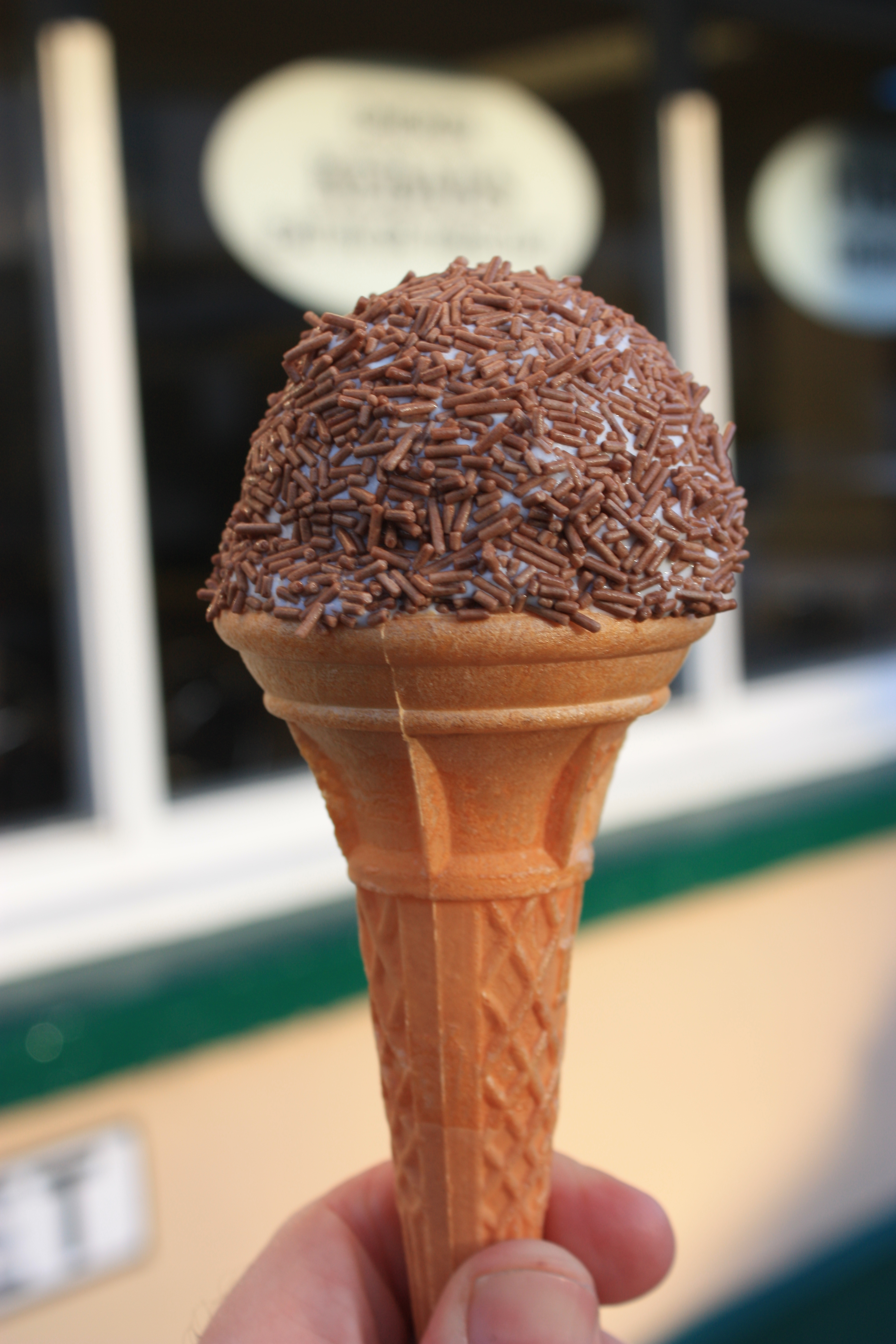 Ice cream cone with chocolate chip sprinkling from Italian ice cream producer of Swansea, Wales known as Joe's Ice Cream